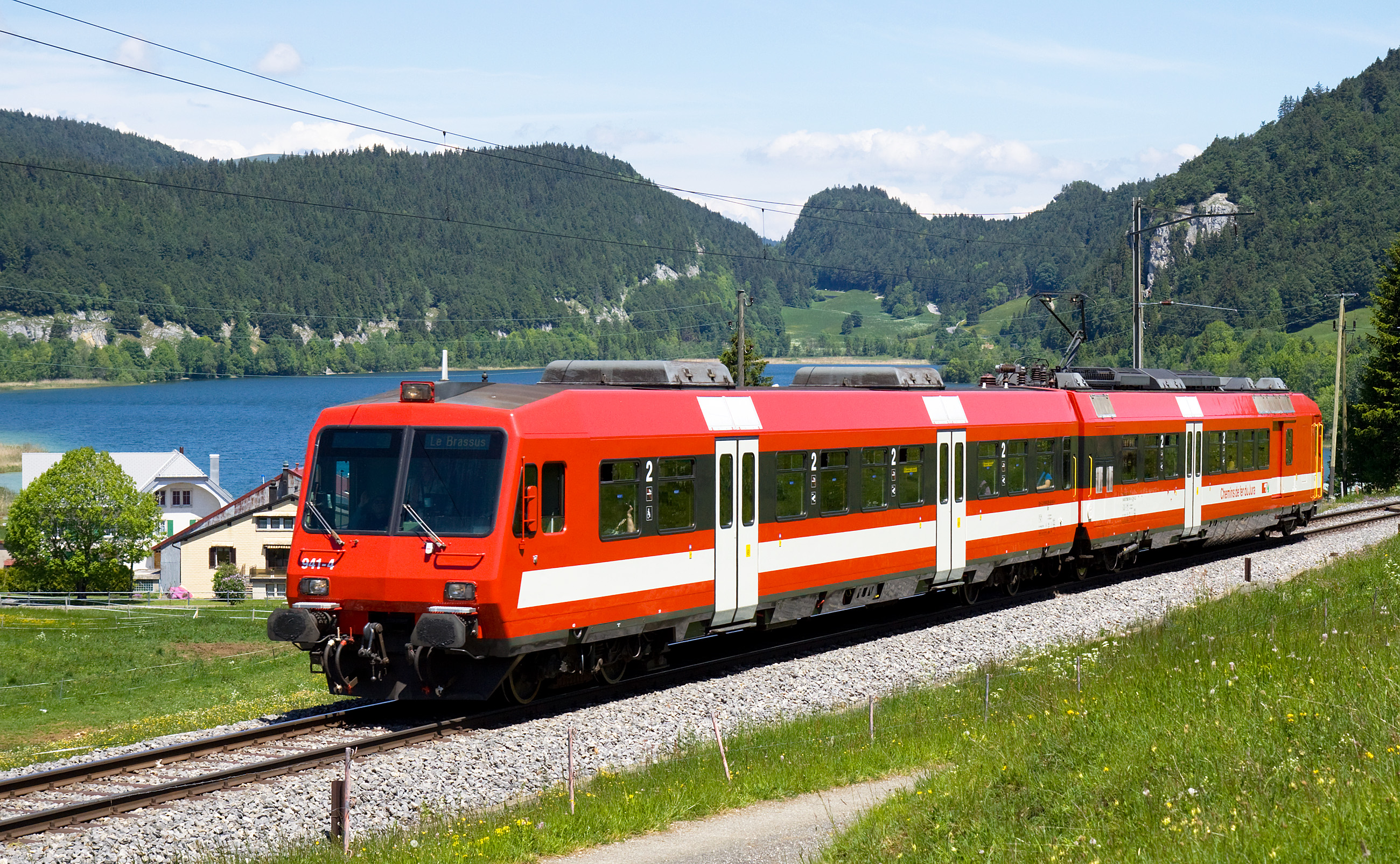 In 2009 the Chemins de fer du Jura bought the last remaining NPZ prototype (the three others have been sold to OeBB and MBS earlier) from SBB-CFF-FFS. It already had the new livery when it was still in SBB service, here on the Chemin de fer Pont-Brassus line through the Vallée de Joux.